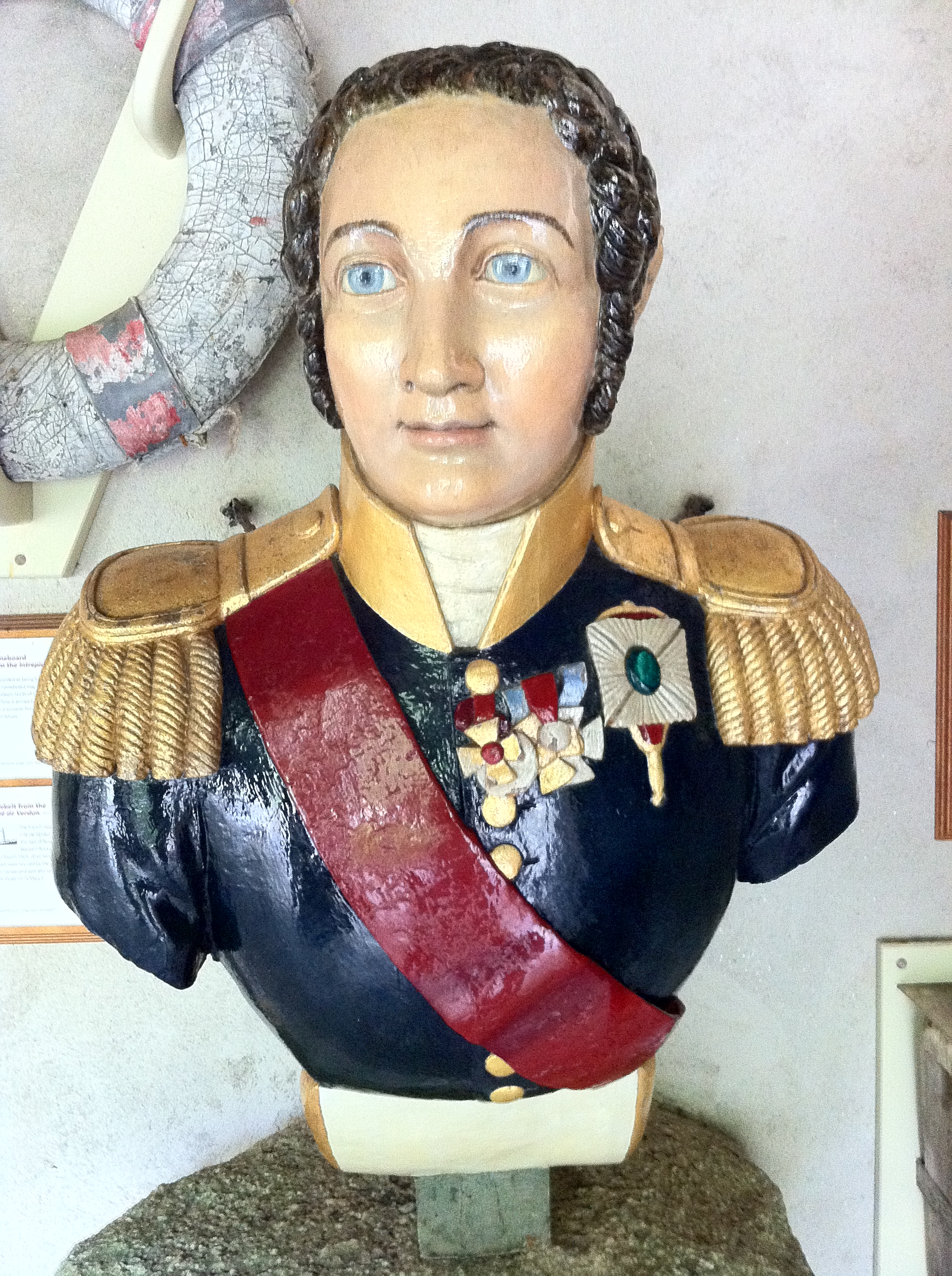 This Venetian brig was driven onto the Mare Ledges on New Year's Day, 1851. Alessandro il Grande is Italian for Alexander the Great, but the figurehead is a portrait of Tsar Alexander I of Russia. In the Valhalla Museum in Tresco Abbey Gardens, Isles of Scilly.